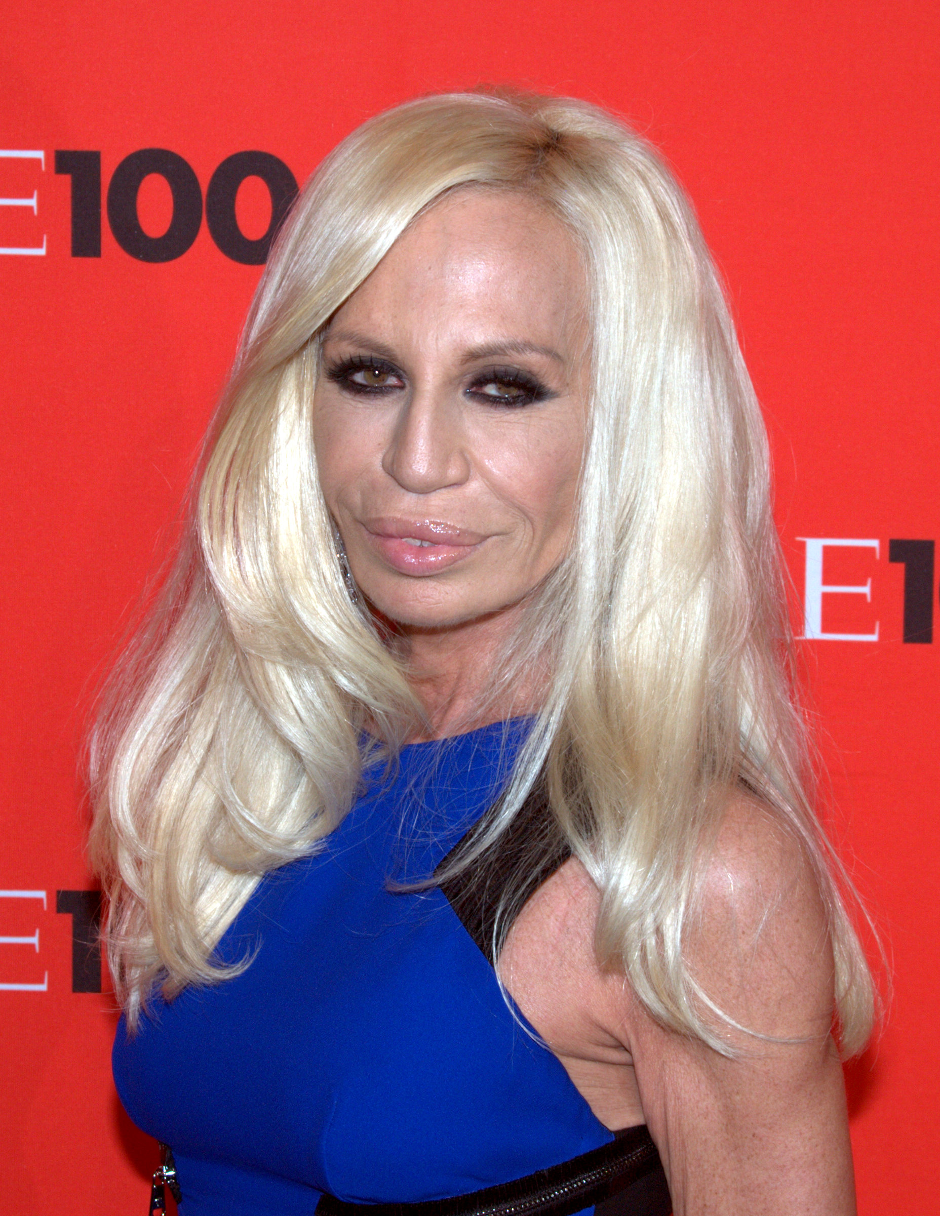 Donatella Versace at the 2010 Time 100.